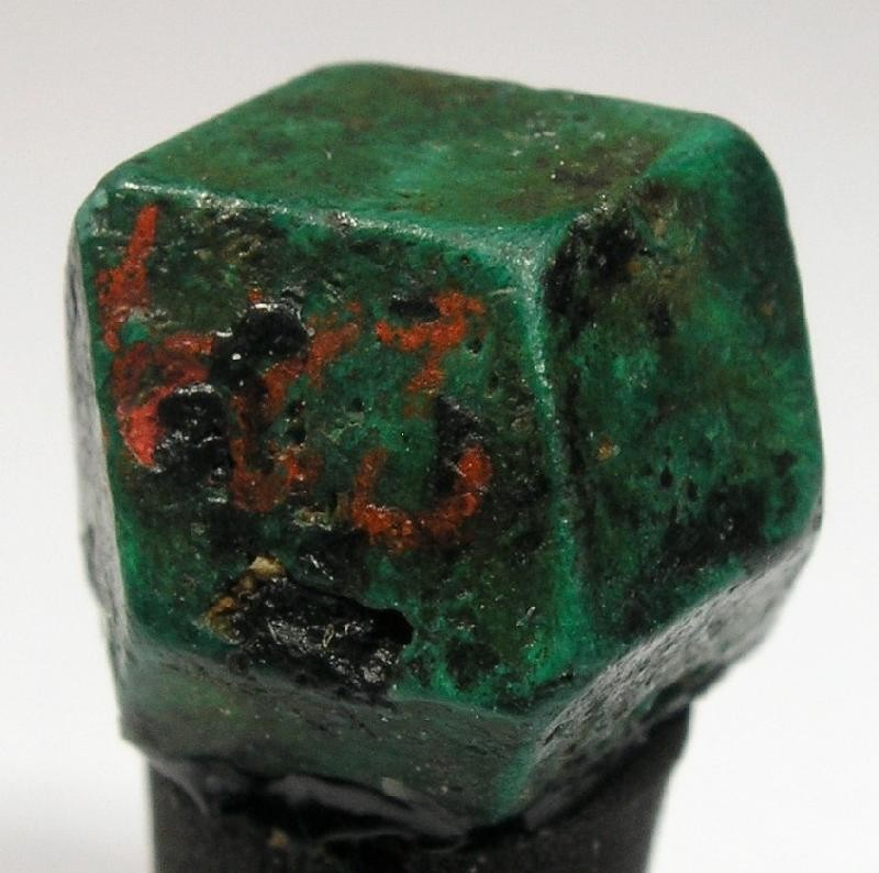 Malachite, Cuprite Locality: Chessy-les-Mines, Rhône, Rhône-Alpes, France (Locality at ) Sharp, very attractive , classic example of this famous pseudomorph! However, its MUCH sharper than normal, and really exquisite in person. It is so sharp, in fact, she had it labelled as a garnet from France...but it ain't! 0.9 x .8 x .7 cm